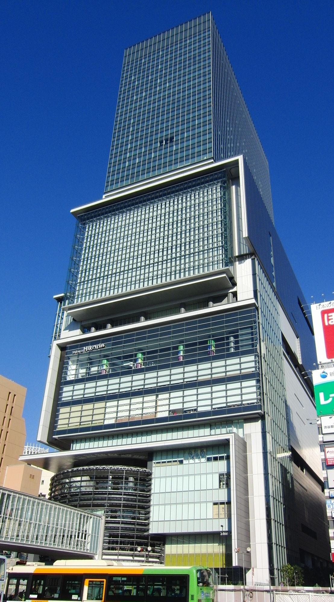 Shibuya Hikarie,Shibuya,Tokyo,Japan